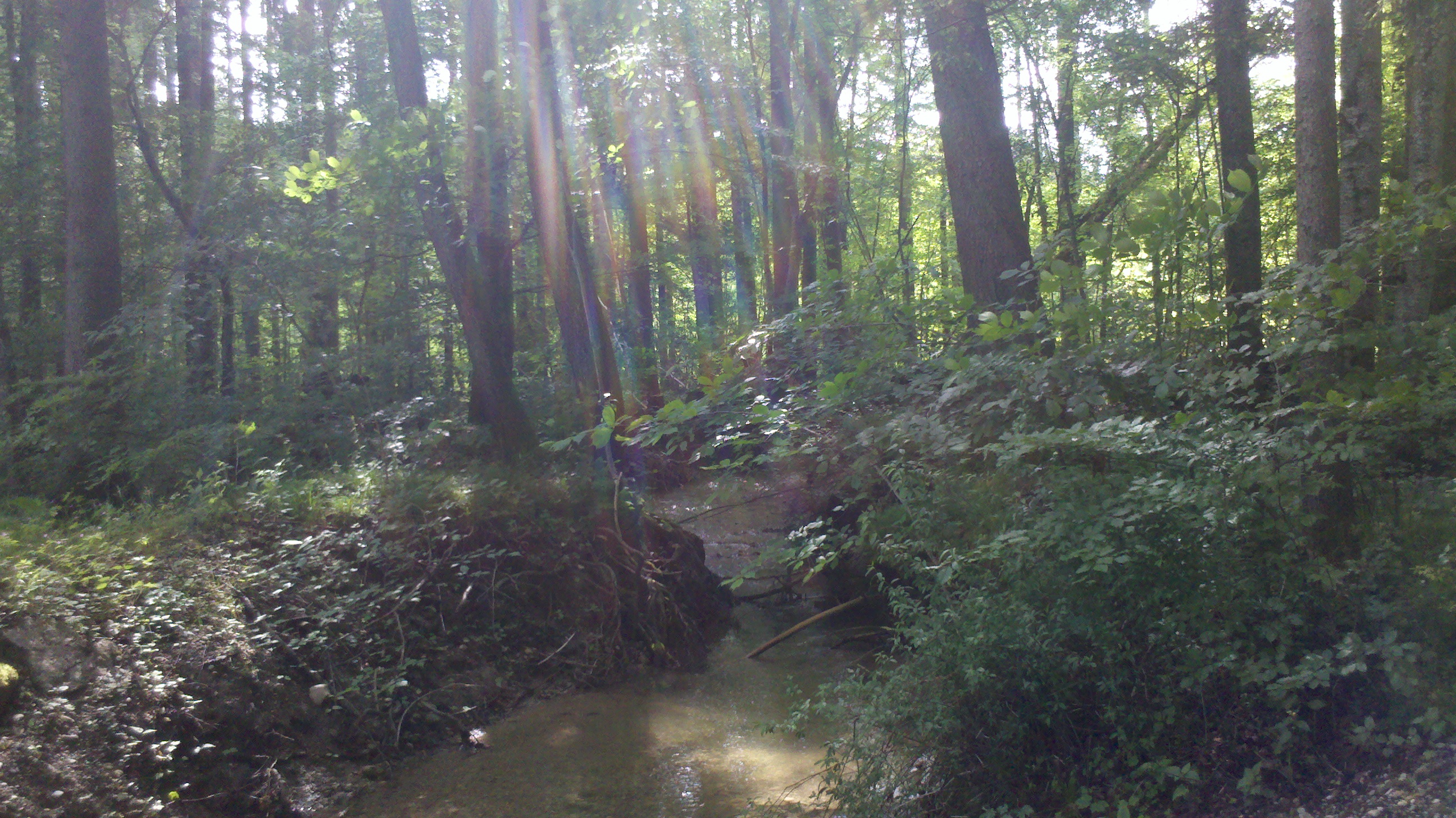 Riedbach (Dreibrunnenbach), Bavaria